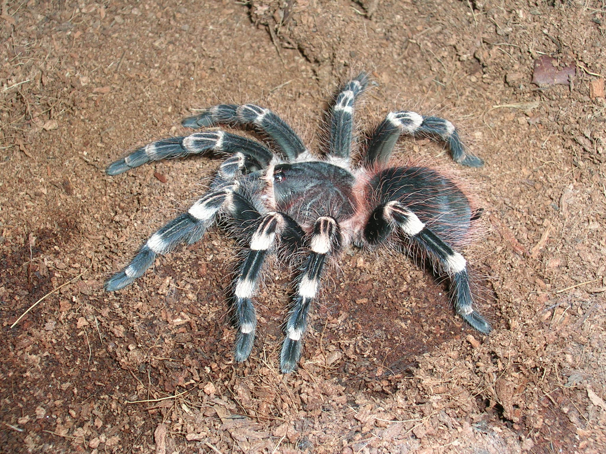 Acanthoscurria Geniculata L10